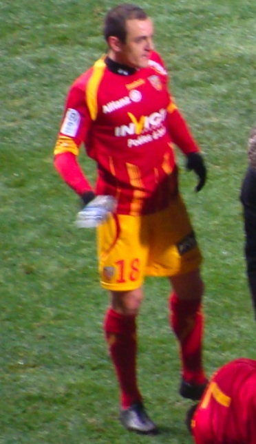 Sébastien Roudet french player